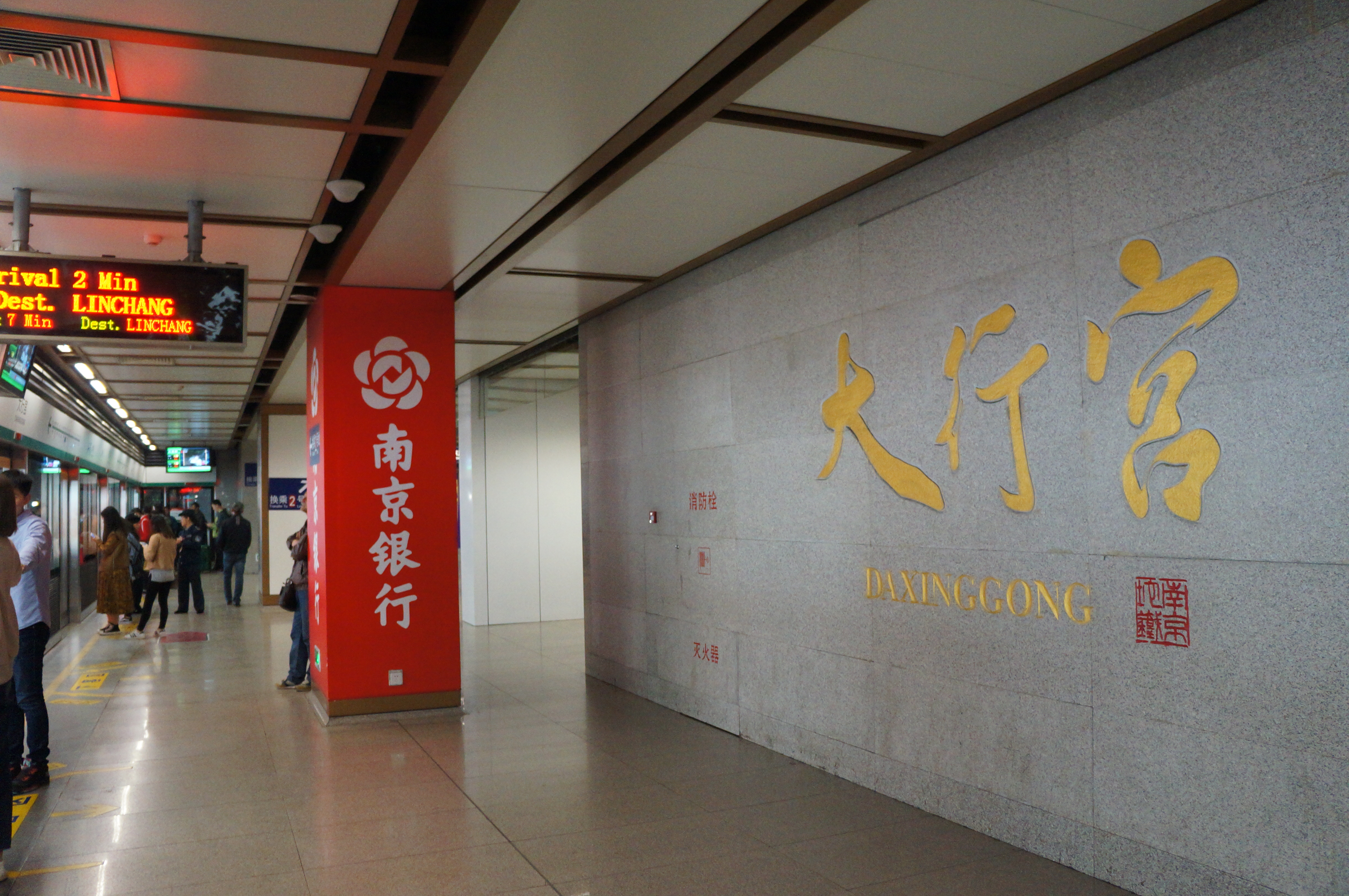 201704 L3 Daxinggong Station